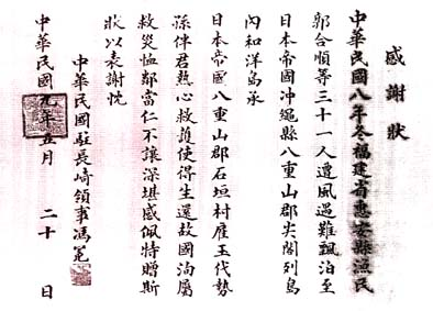 Letter of thanks from Republic of China consul, resident in Nagasaki, to Ishigakijima in 1920. In this letter, the consul of ROC thanked for saving Fujian fishermen, who met with a disaster, then were cast ashore in Senkaku Islands. And he recognized that Senkaku Islands were the territories of Japan. (Provisional translation by Ministry of Foreign Affairs of Japan) "In the winter of the 8th year (1919) of the Republic of China, 31 fishermen from Hui'an Country, Fujian Province were lost due to the stormy wind and were washed ashore on the Wayo Island, of the Senkaku Islands, Yaeyama District, Okinawa Prefecture, Empire of Japan. Thanks to the enthusiastic rescue work by the people of Ishigaki village, Yaeyama District, Empire of Japan, they were able to safely return to their homeland. With a deep response and admiration toward the people of the village who were willing and generous in the rescue operation, I express my gratitude by this letter. Consul of the Republic of China in Nagasaki Feng Mien 20 May, the 9th year (1920) of the Republic of China"